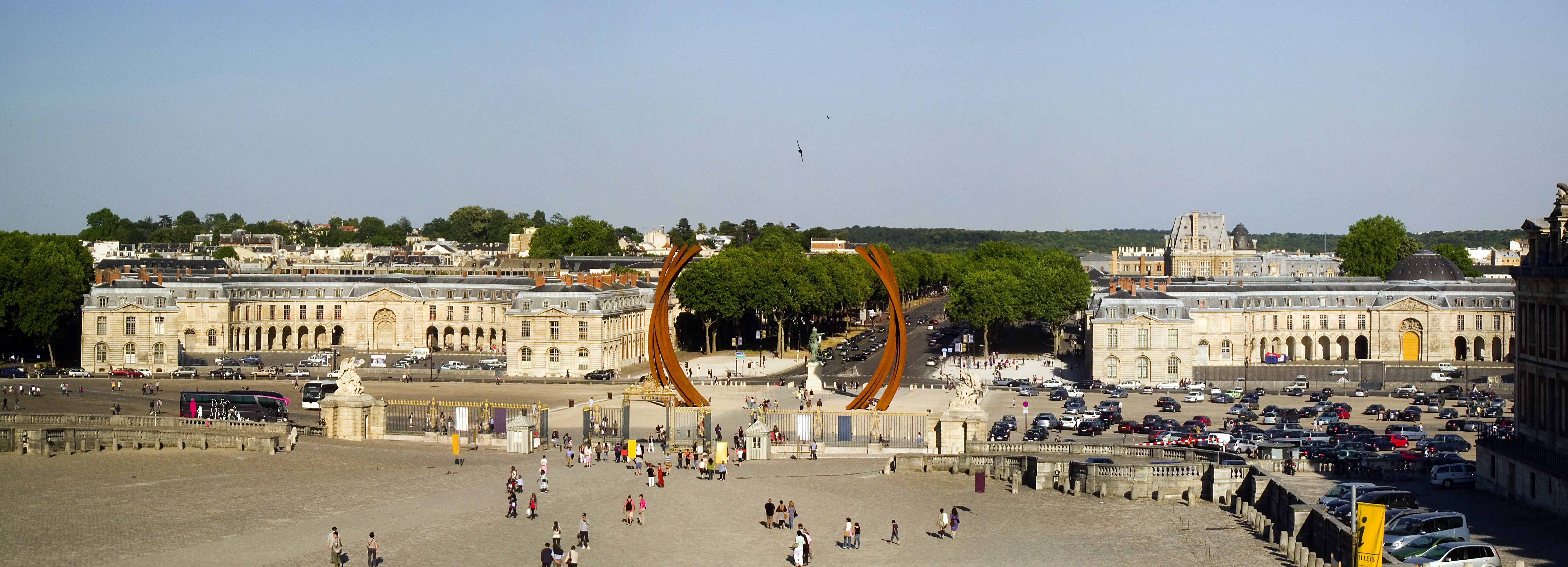 Palace of Versailles